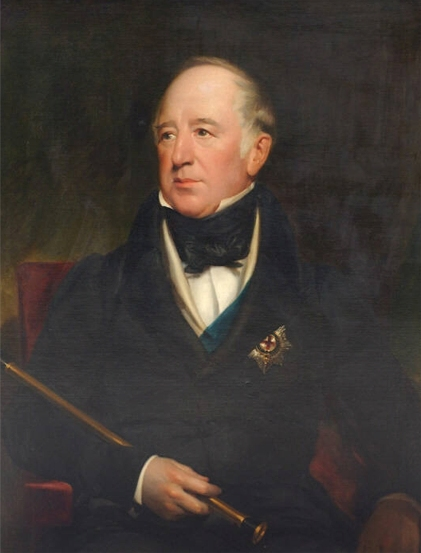 The Twelfth Duke of Norfolk, portrait of Bernard Howard, 12th Duke of Norfolk (1765-1842)